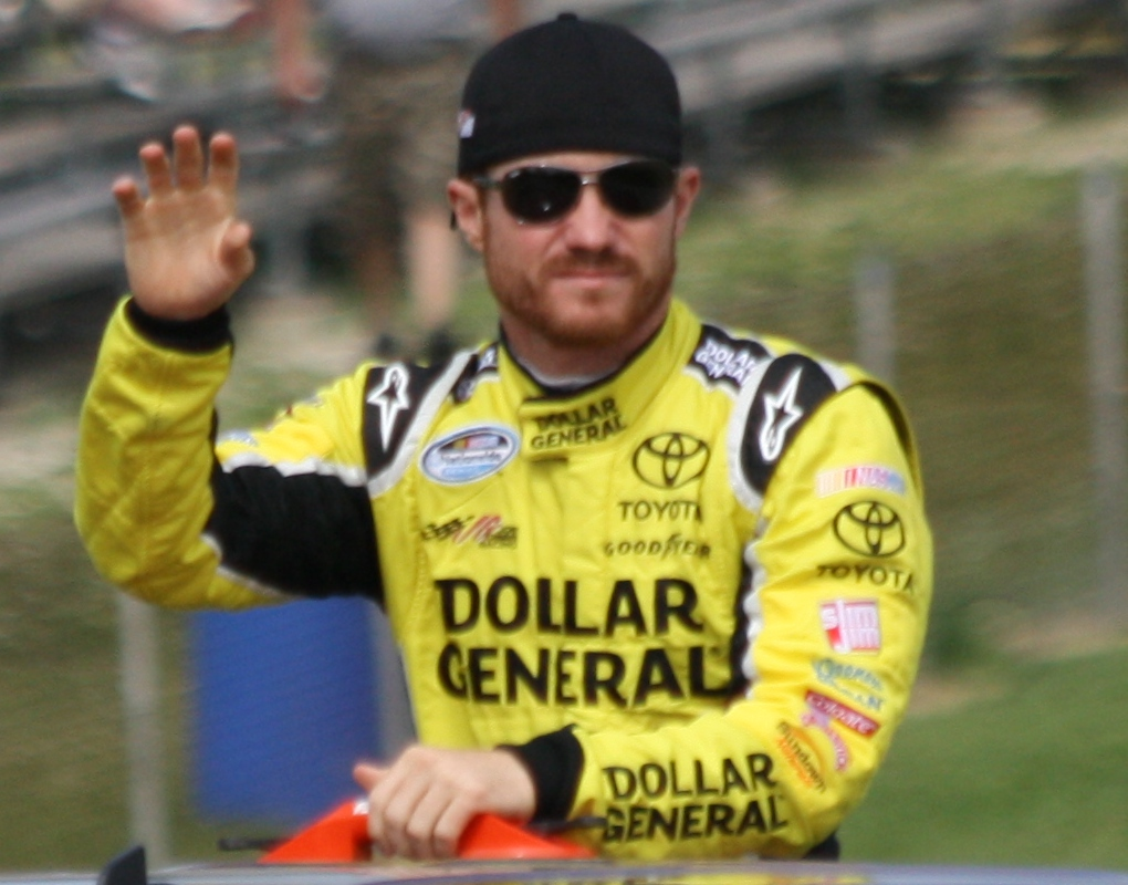 NASCAR driver Brian Vickers at the 2013 Johnsonville Sausage 200 Nationwide race at Road America.